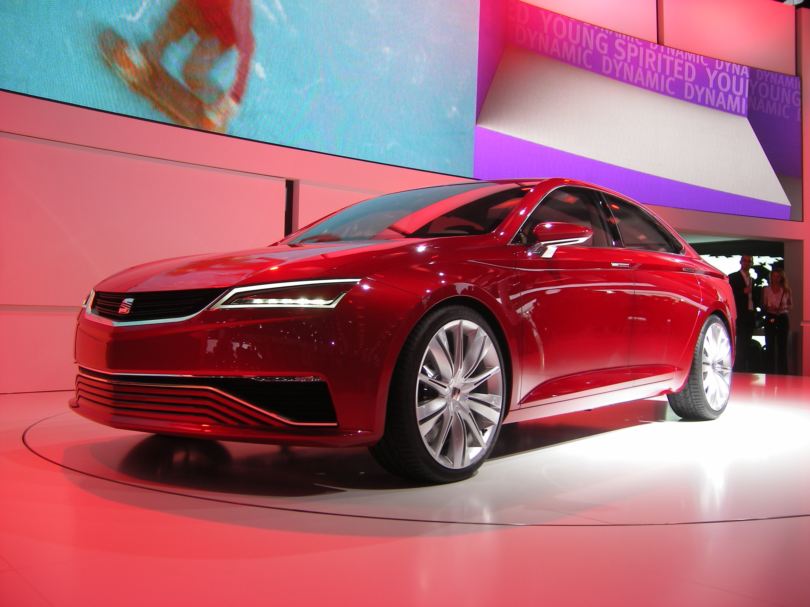 SEAT IBL front side